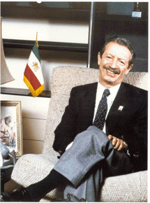 Dr. Shahpour Bakhtiar